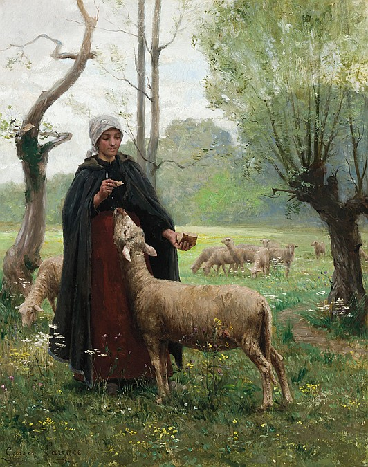 Painting by Georges Laugée of a shepherdess feeding one of her sheep